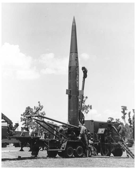 Pershing 1A missle on erector launcher (EL). Programmer Test Station (PTS) and Power Station (PS) mounted on M656 truck emplaced aft of the EL. This is not a tactical configuration, as the PTS is in the missile blast zone.